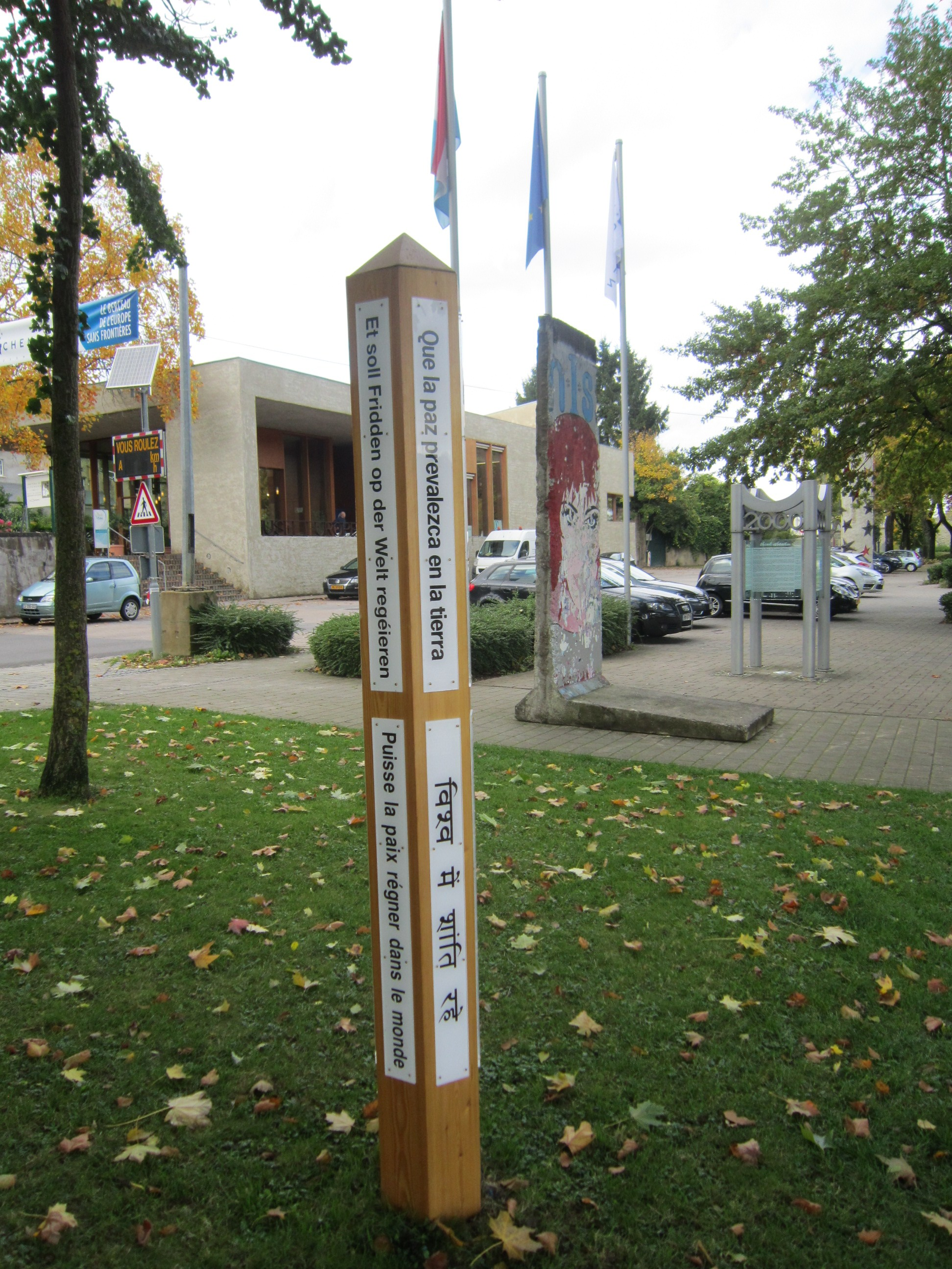 Peace Column, segment of the Berlin Wall and Europe Memorial between the European Information Centre and Moselle River in Schengen (Luxembourg)